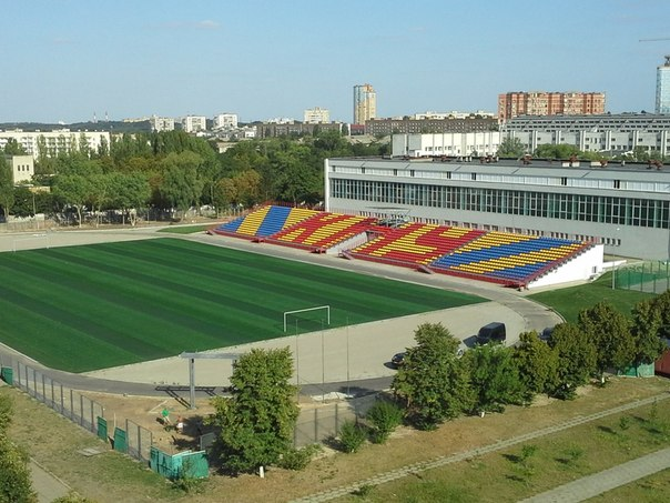 Kyiv National University Stadium in Kyiv, Ukraine